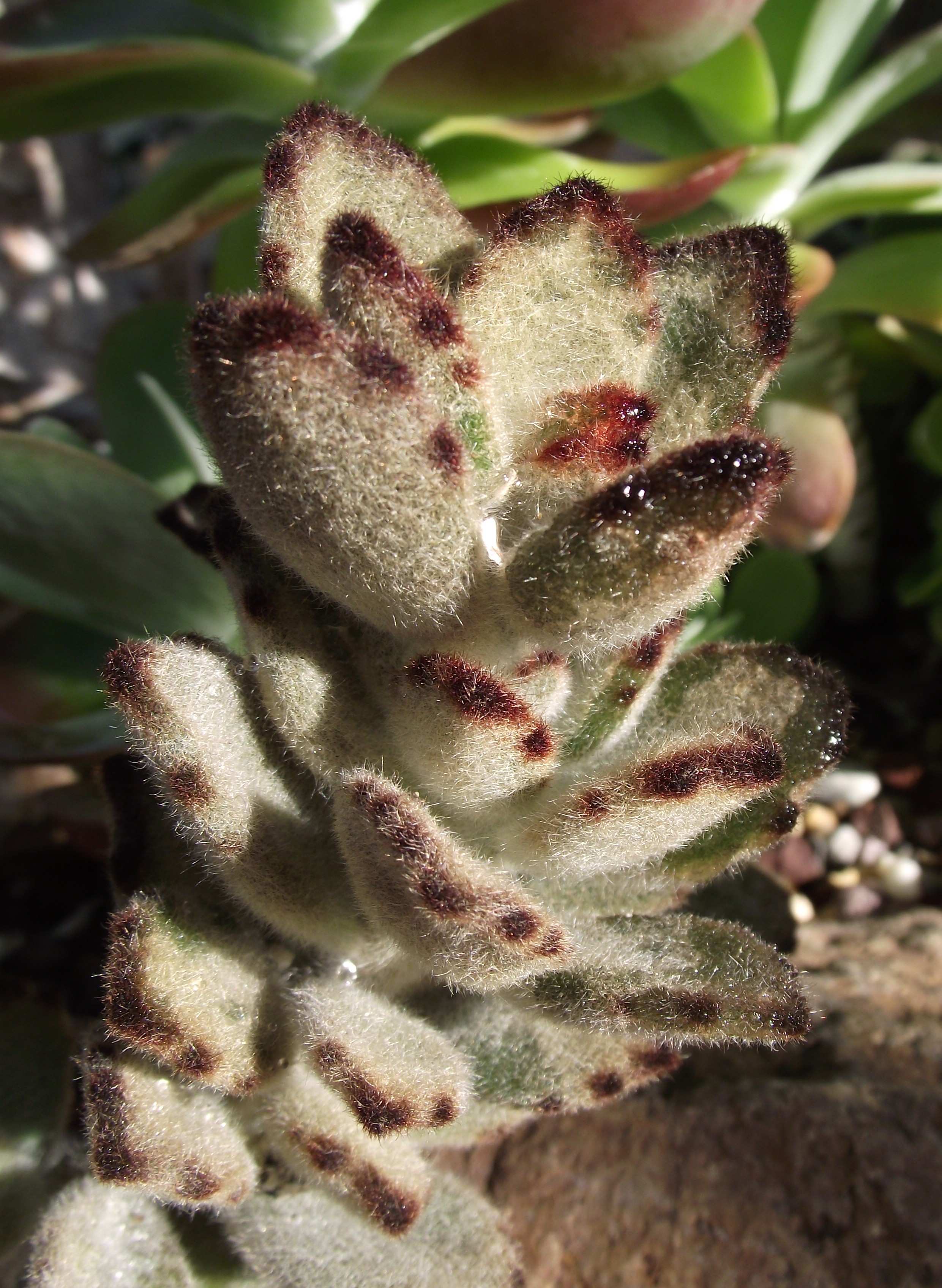 Kalanchoe tomentosa 'Chocolate Soldier' at the Volunteer Park Conservatory, Seattle, Washington, USA. Identified by sign.